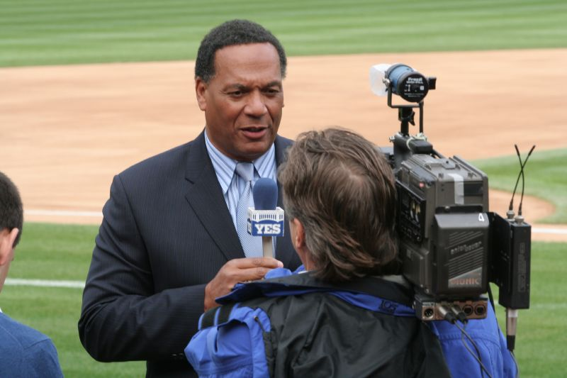 Former Major League Baseball outfielder/designated hitter and current television announcer Ken Singleton.